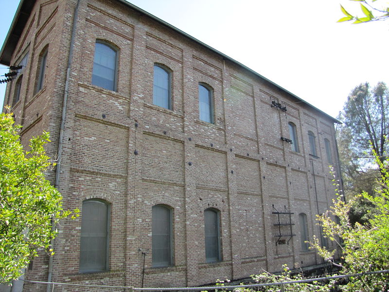 The Folsom Powerhouse brought in the first powerhouses that generated in 1985.